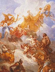 excerpt from original